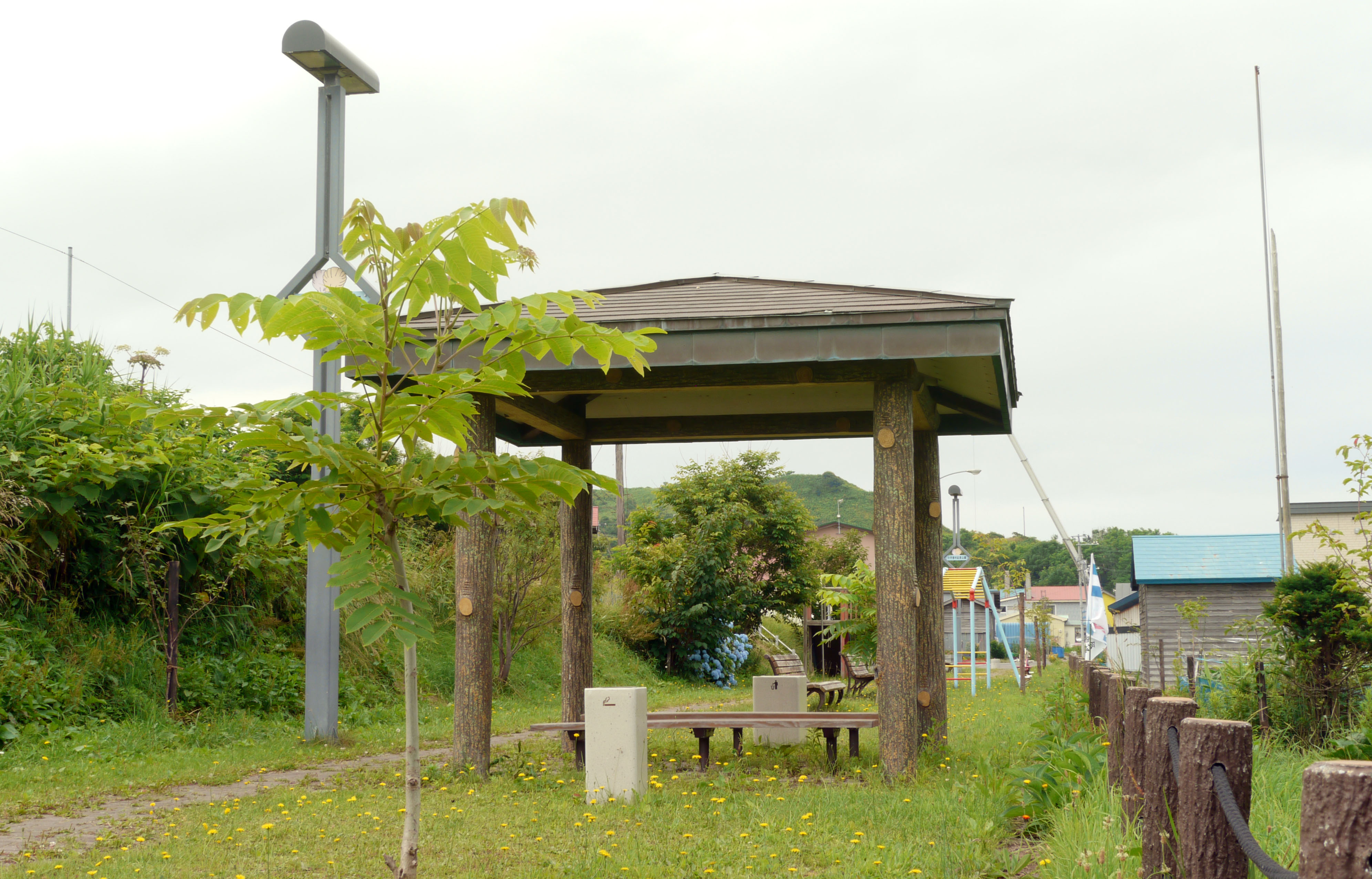 The remains of Usuya Station of the Haboro Line in Hokkaido, Japan. Photo taken on July 26, 2011.